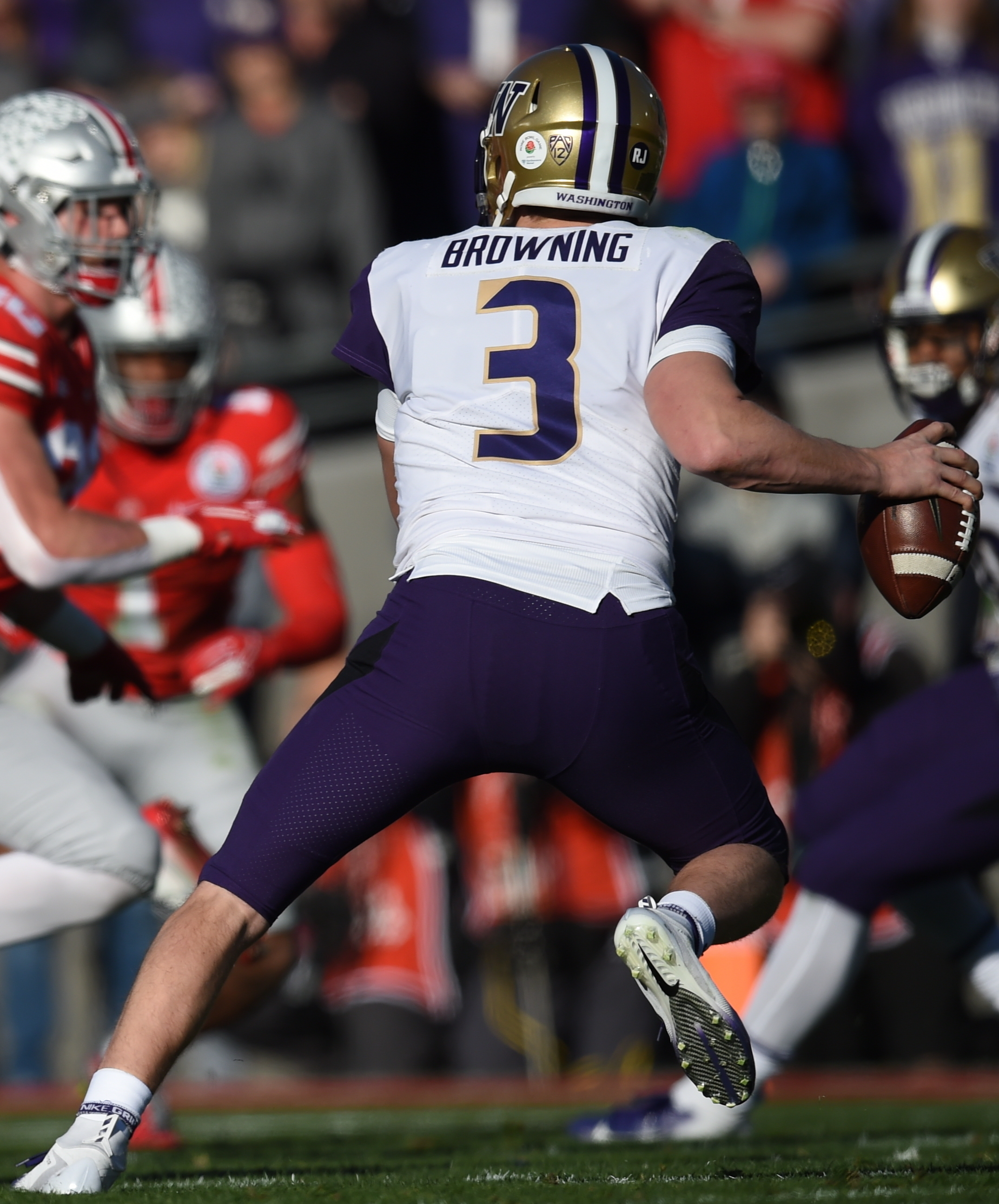 Washington quarterback Jake Browning runs against Ohio State defensive line Jaylee Johnson during the first half of the Rose Bowl. The Rose Bowl -- known in sports circles as the "Grandaddy of them All" -- featured a College Football Playoff semifinal between the Washington Huskies and the Ohio State Buckeyes in Pasadena, Calif., Jan. 1, 2019.